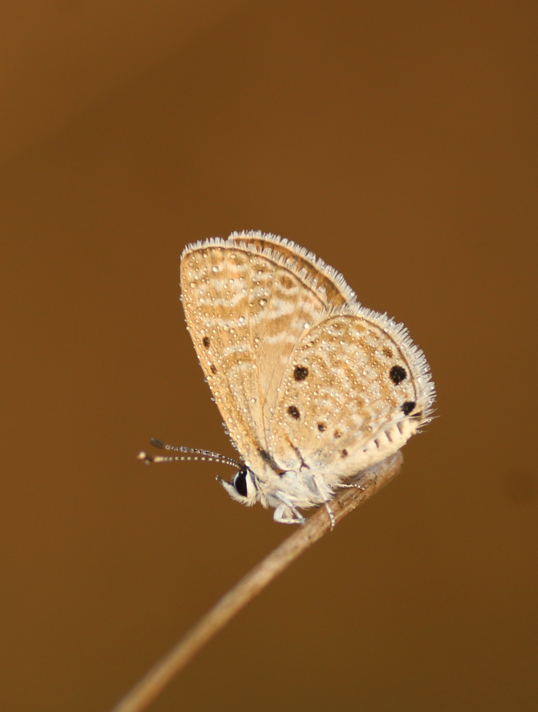 Bright babul blue,Azanus ubaldus